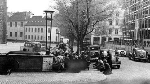 Danish resistance fighters battling German troops in Aarhus, Bispetorv, 5 May, 1945